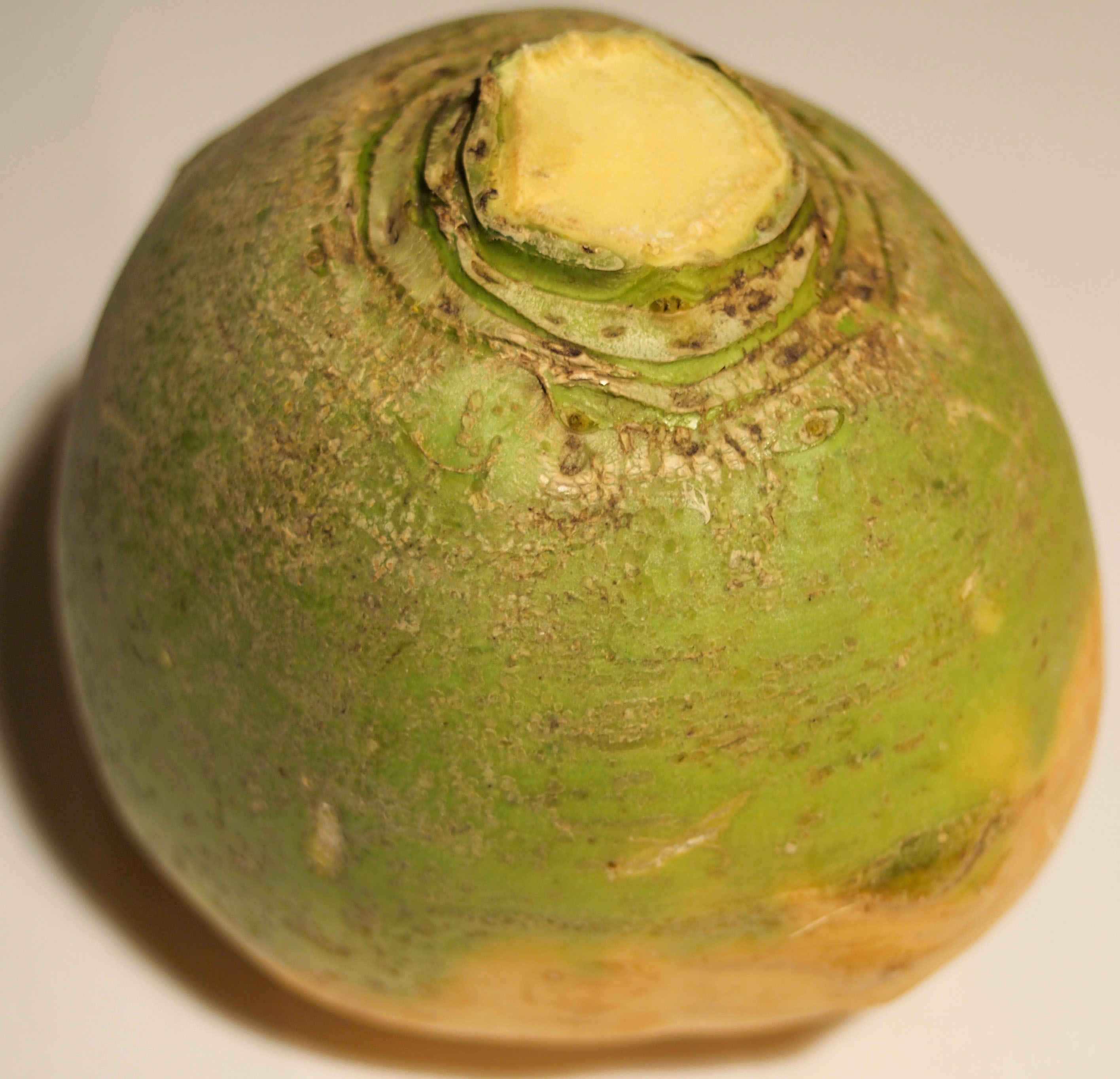 Rutabaga